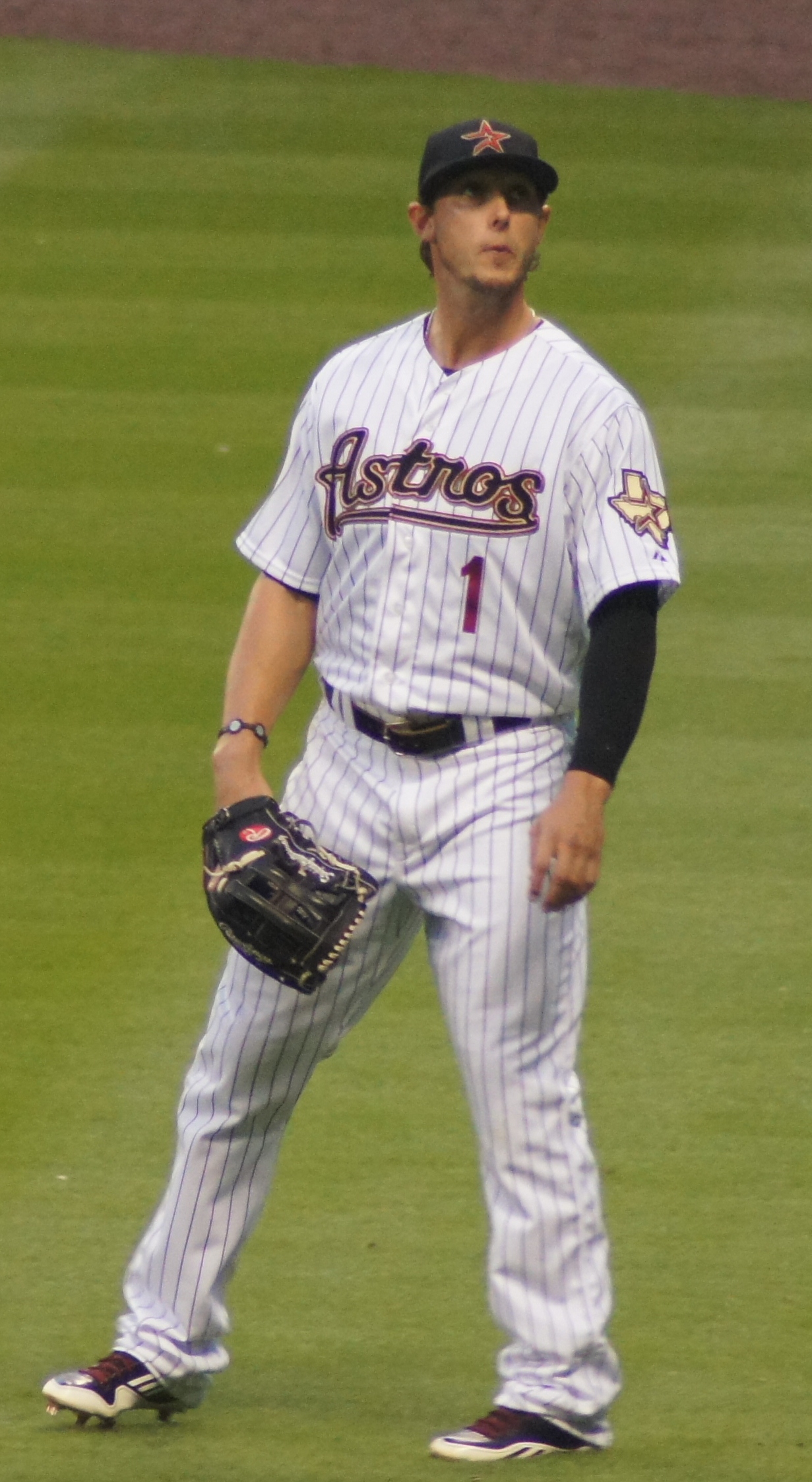 Jordan James Schafer as a Houston Astro